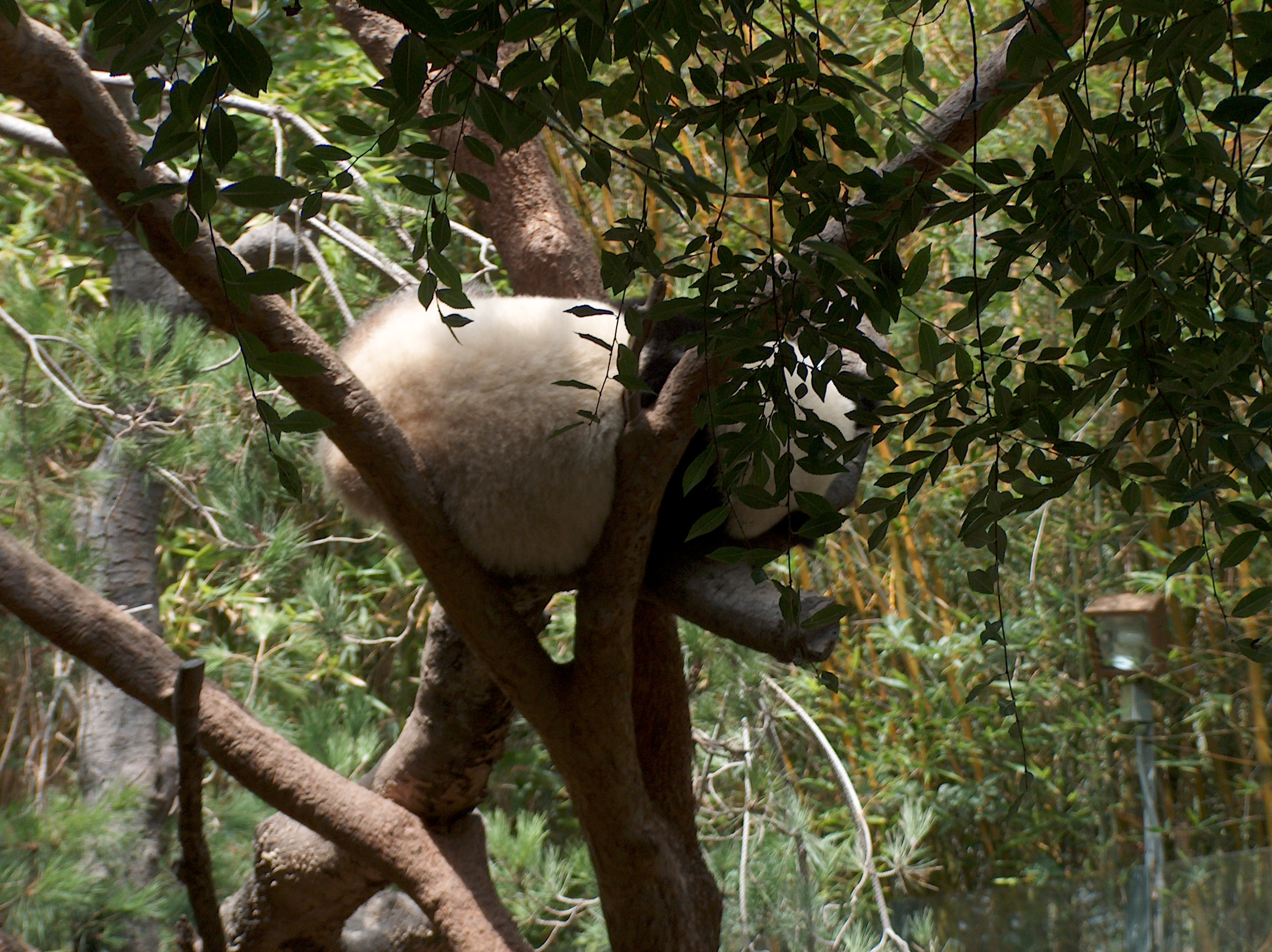 Giant Panda cub Mei Sheng at the San Diego Zoo. Photo taken by User:Mike R on 8 August, 2005.